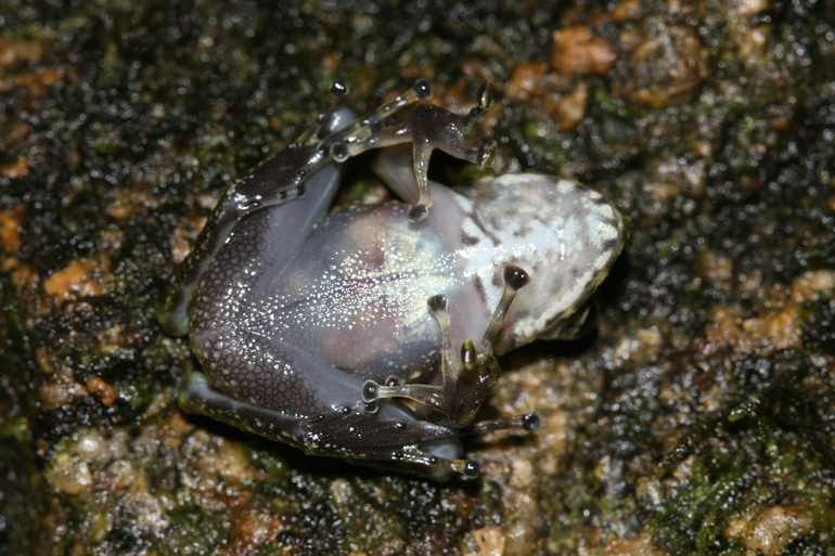 Mantidactylus webbi